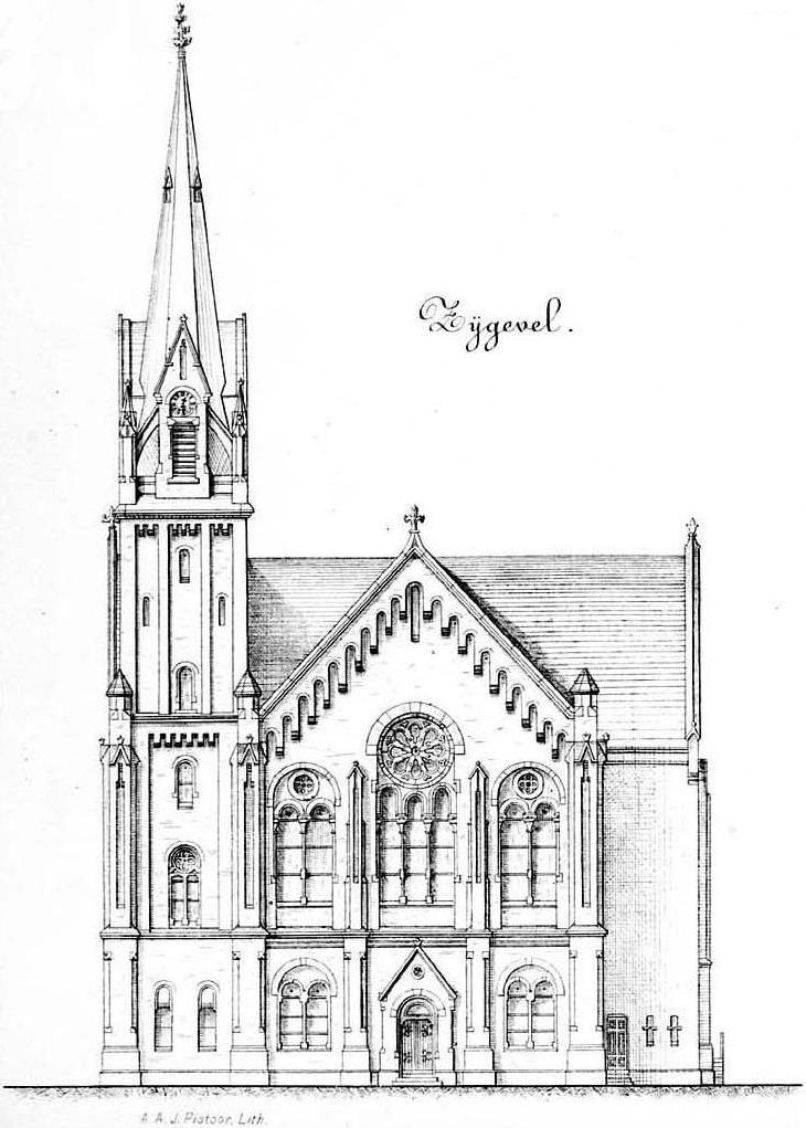 J.A. Jurriaanse. Westerkerk, Kruiskade, Rotterdam, side elevation.